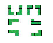 tetris blocks